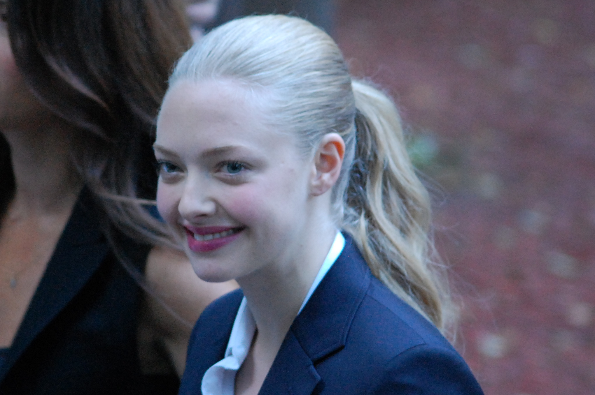 Amanda Seyfried at the "Up in the Air" premiere (Ryerson Theatre, 2009 Toronto International Film Festival).